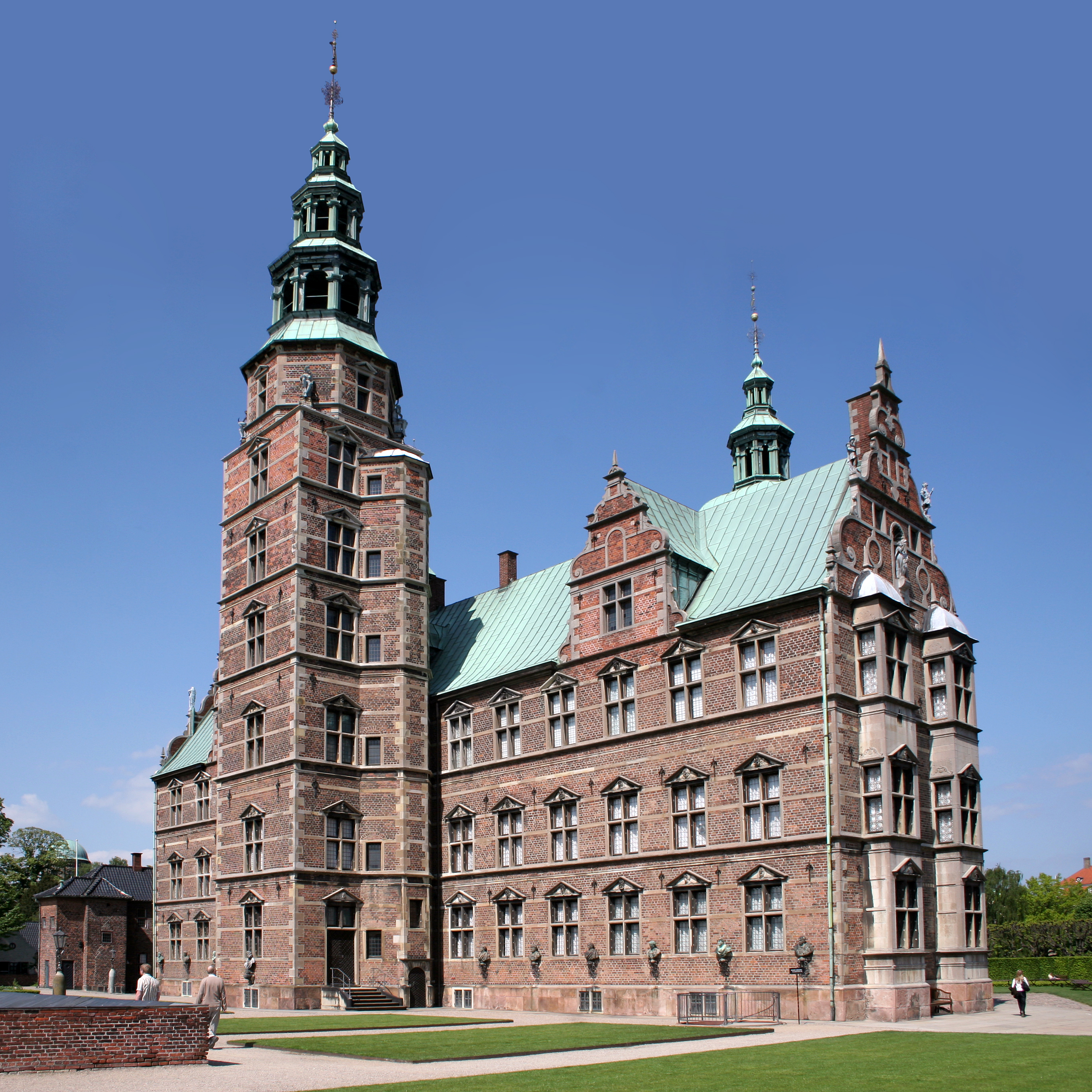 Rosenborg Castle in central Copenhagen. The image is a stitch from two original photos.